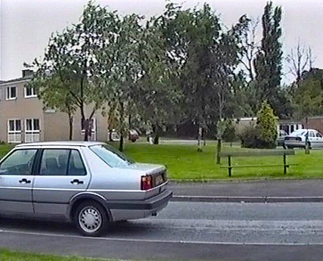 Chiltern Drive A street consisting mainly of local-authority-owned, warden-controlled bungalows for housing elderly persons - commonly referred to as "owd-folk's bungalows". At the end of Hawthorn Grove is a group of flats which includes the warden's residence.